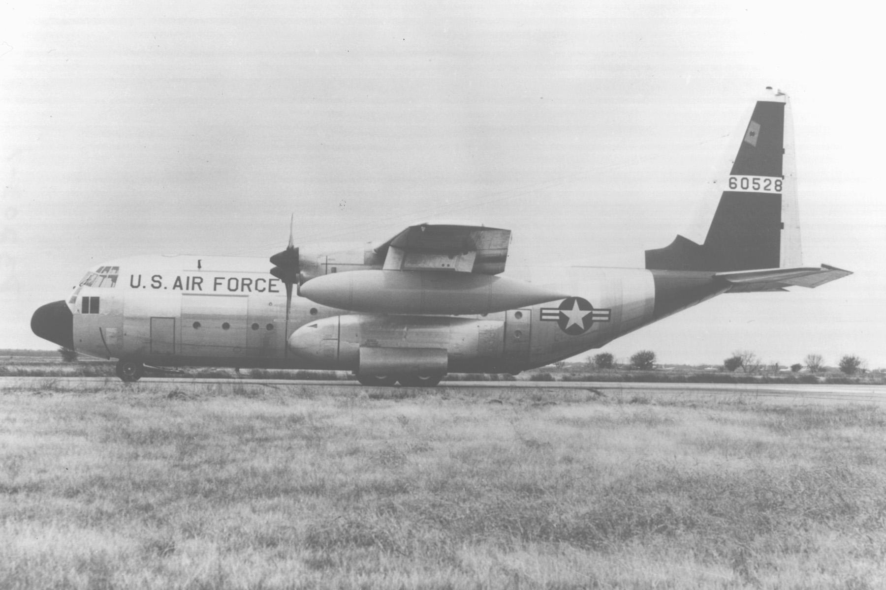 Photographed in Texas before delivery to Rhein-Main Air Base, Germany, summer 1958.